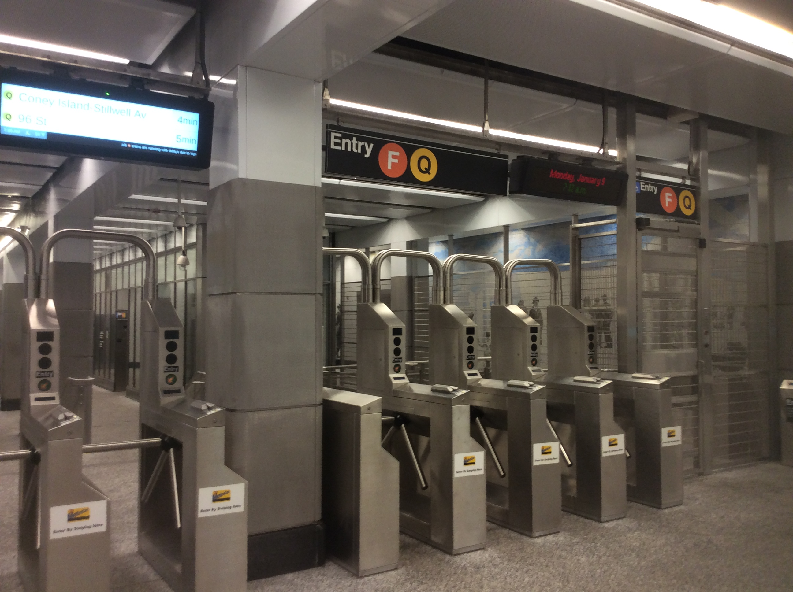 New Third Avenue entrance to the Lexington Avenue - 63rd Street station as seen in January 2017